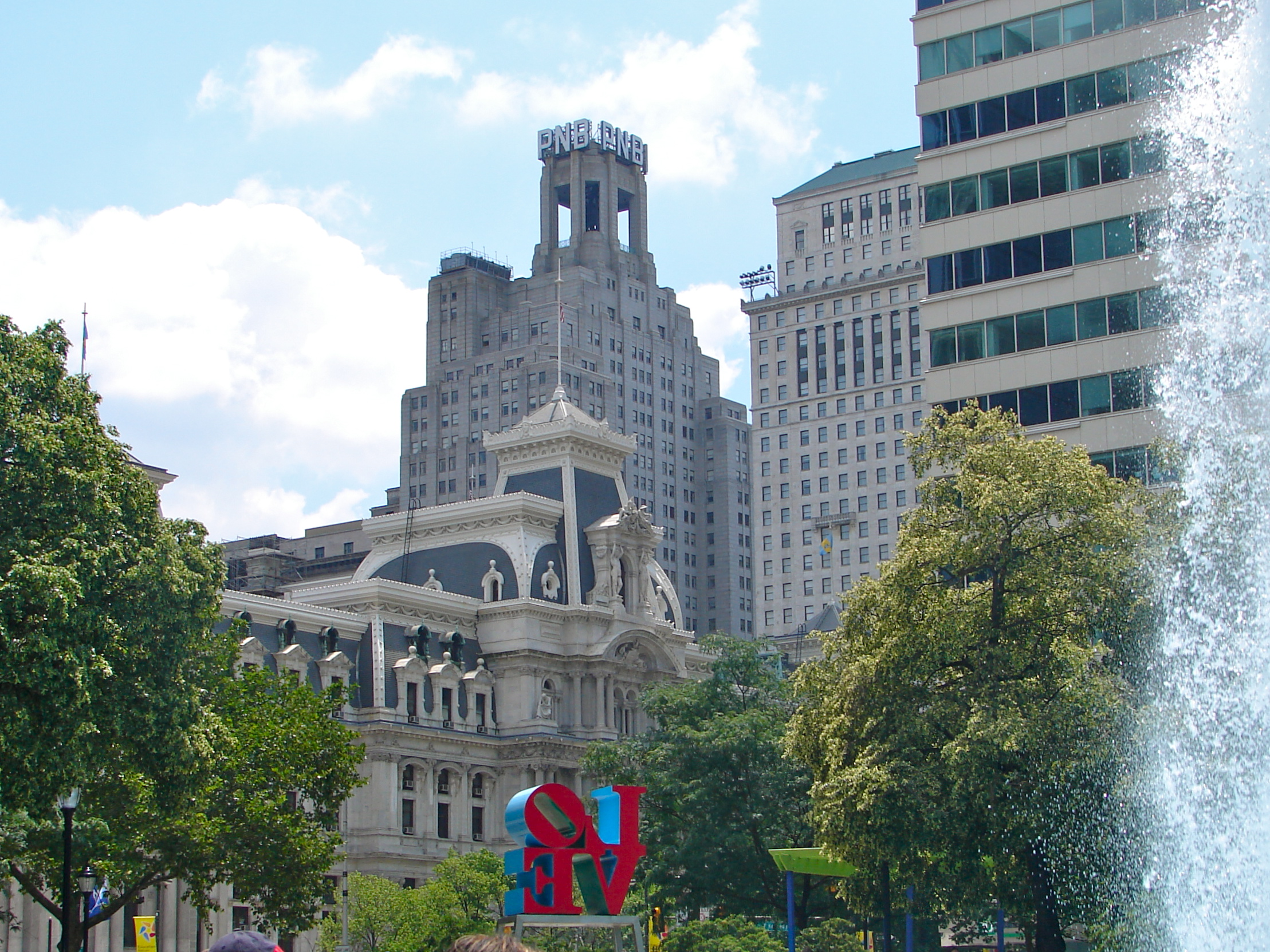 One South Broad Street (center) in the Broad Street Historic District in the center of Center City Philadelphia. On the NRHP since April 6, 1984. The HD is roughly bounded by Juniper, Cherry, 15th, and Pine Sts. in Philadelphia. Photo shot from Love Park. building in front, left is City Hall, fountain can be seen to the far right.